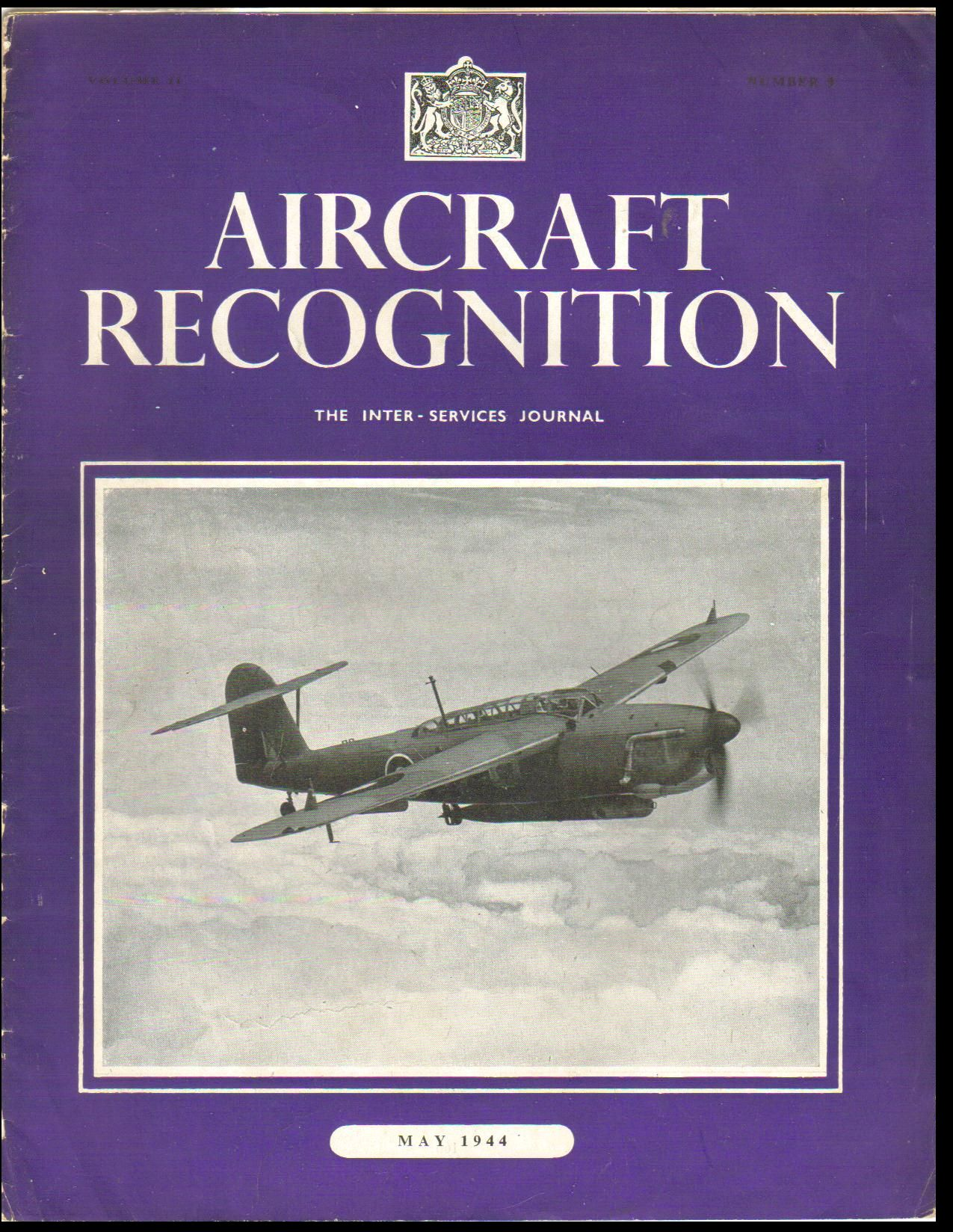 The cover of Aircraft Recognition Volume II Number 9 for May 1944. The cover illustration is of a Fairey Barracuda aircraft.